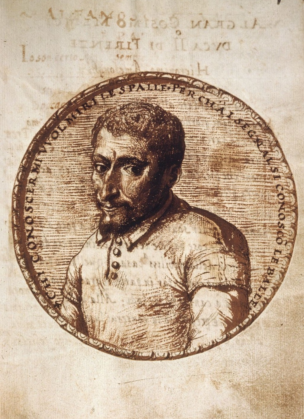 Portrait of the author from a manuscript for Gigantea by Girolamo Amelonghi Gigantea, 1547 Apr. 15. MS Typ 619, Houghton Library, Harvard University